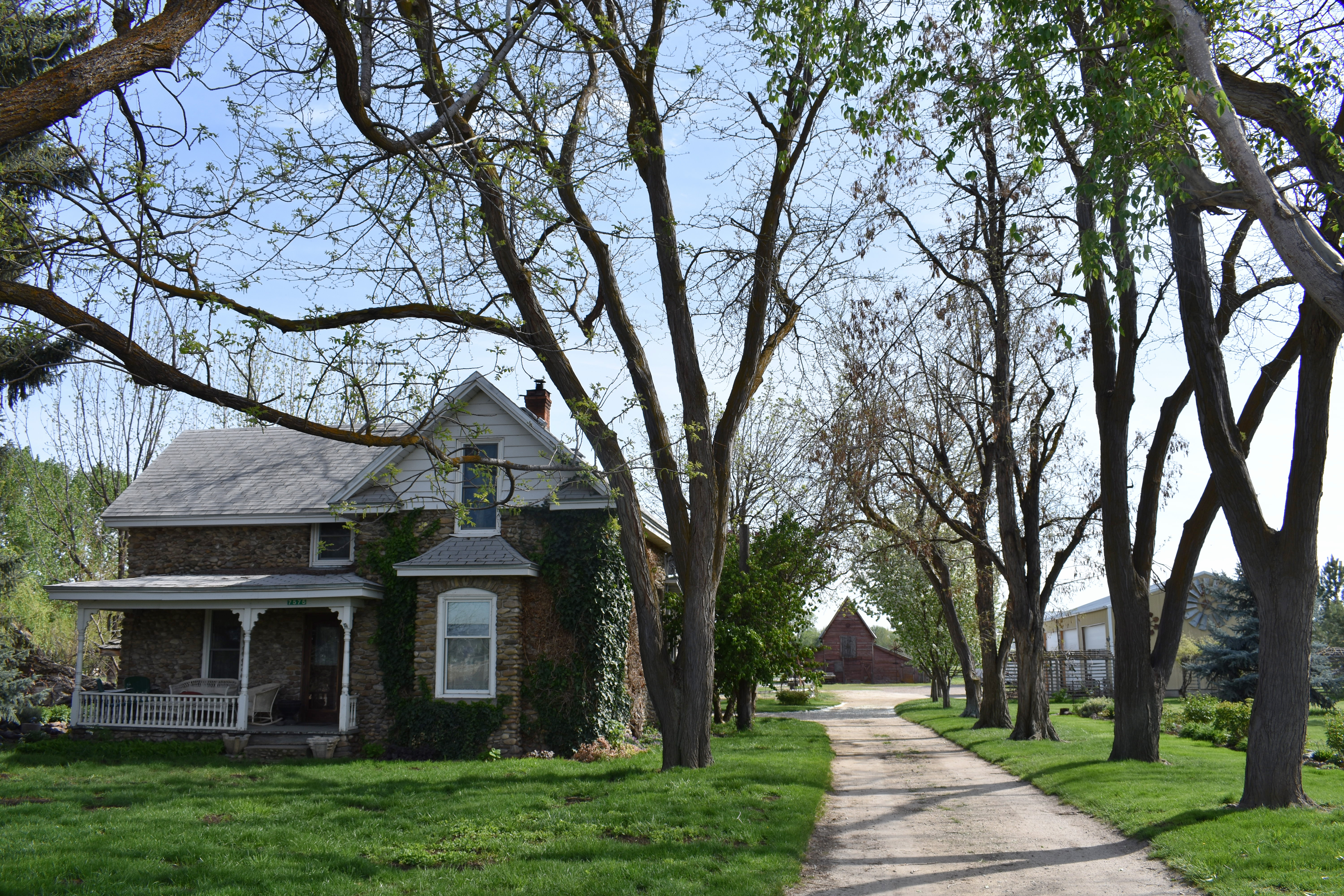 The Charles and Martha Villeneuve House near Eagle, Idaho, was constructed c1881 and is listed on the National Register of Historic Places.